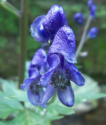 Monkshood, Aconitum napellus,blue flower, NP Krkonoše,Pec pod Sněžkou, june 2007